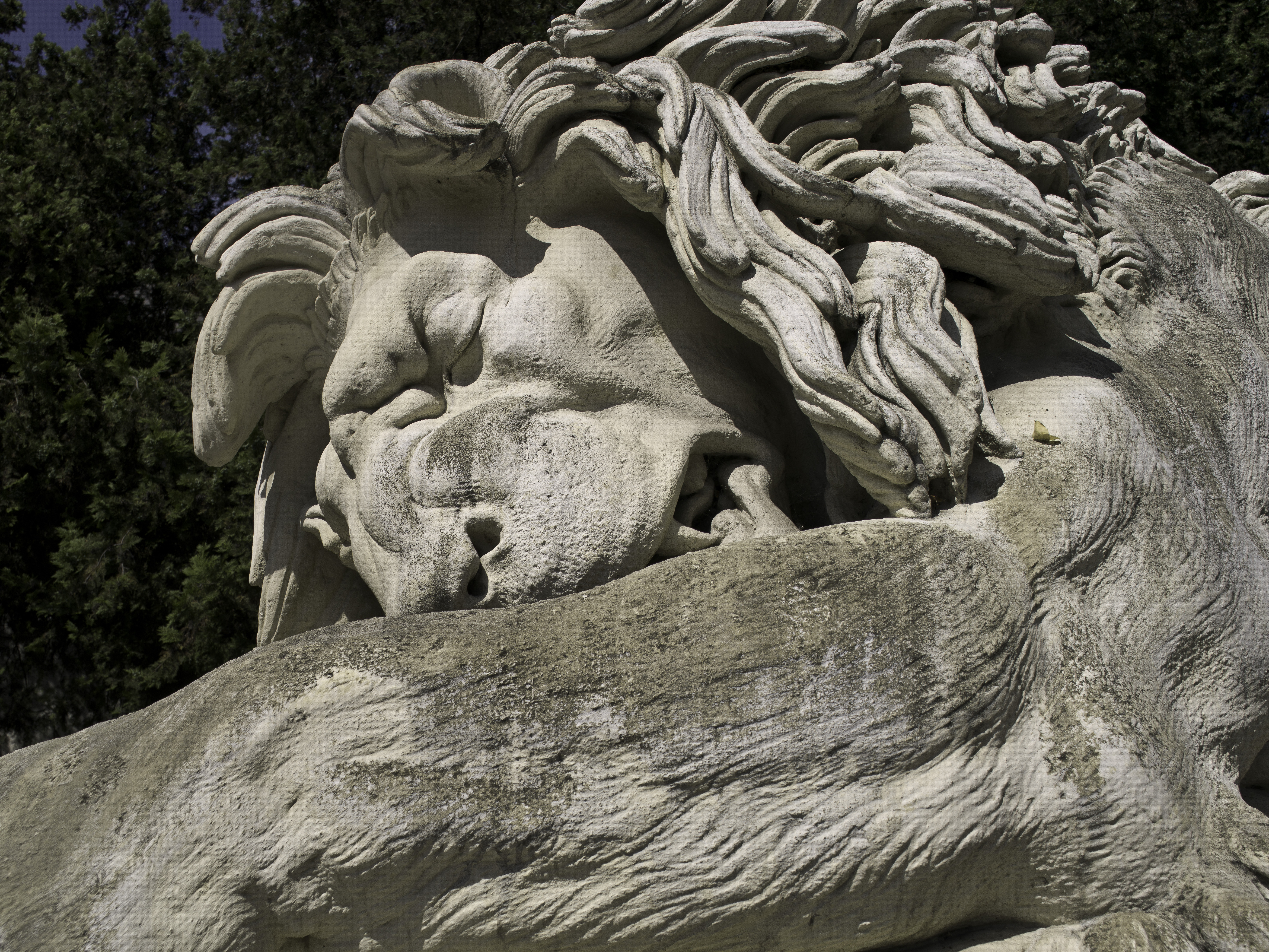 Löwe von Aspera